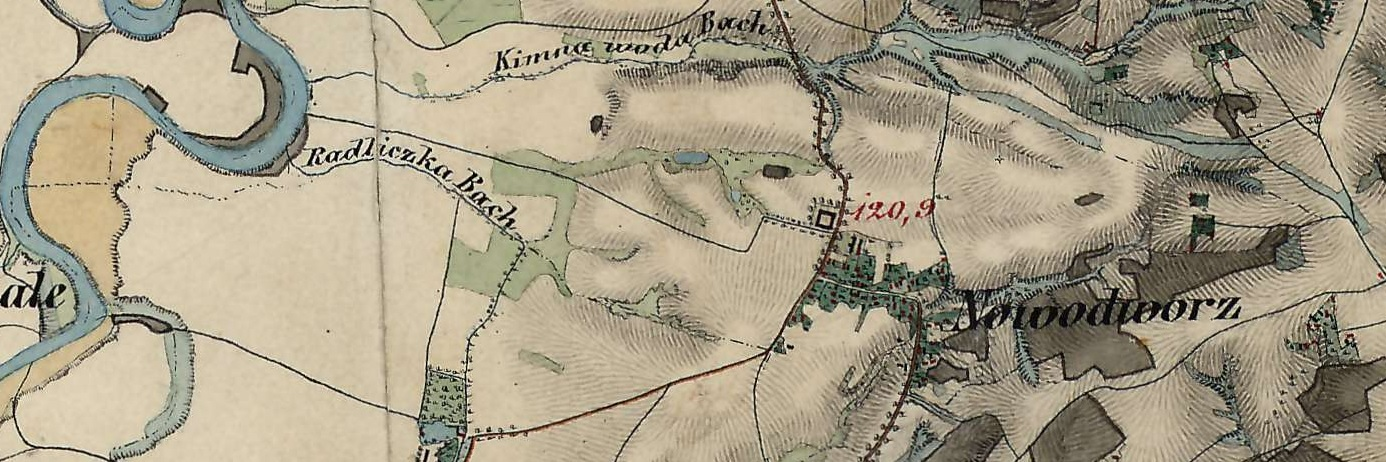 Map of the village Nowodworze about 1860.